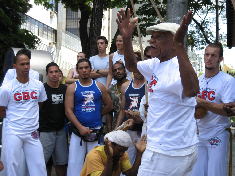 Mestre João Pequeno starting a game of Angola during the Bantus Capoeira 15th Anniversary Festival and Batizado held in Belo Horizonte, Brazil (26 August 2006).